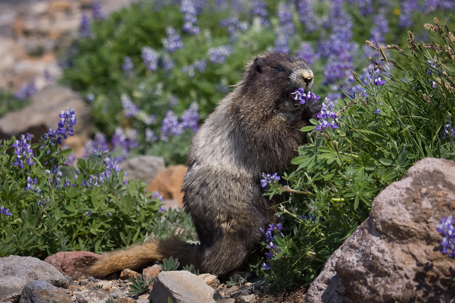 Hoary Marmot (Marmota caligata) is a species of marmot that inhabits the mountains of northwest North America. Ladino: Marmota caligata